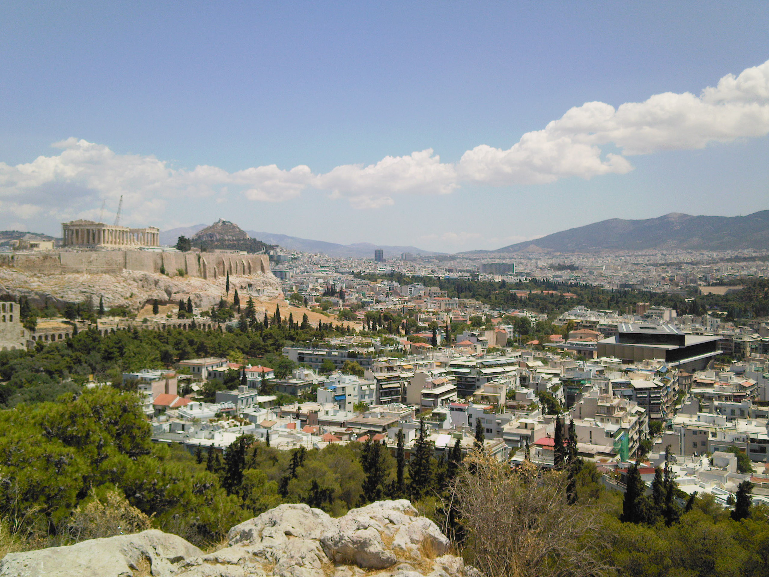 Picy of Acropolis and the museum from Filopappos hill